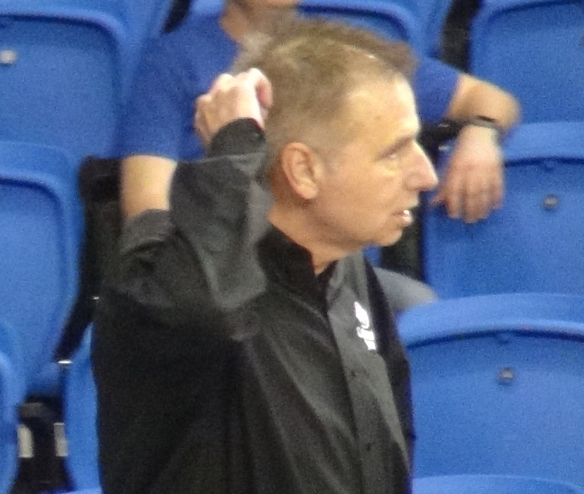 Colorado State University men's basketball head coach Larry Eustachy during a game against San Jose State in 2017.